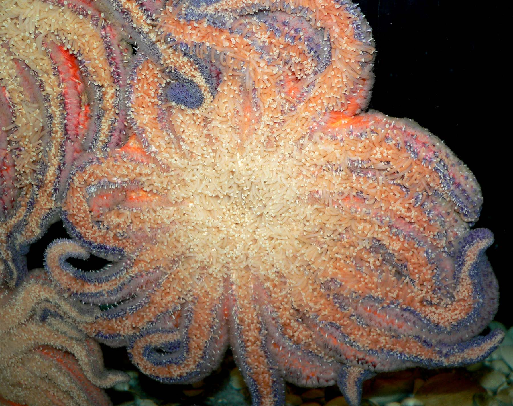 Photo of Pycnopodia helianthoides (sunflower seastar) at the Vancouver Aquarium